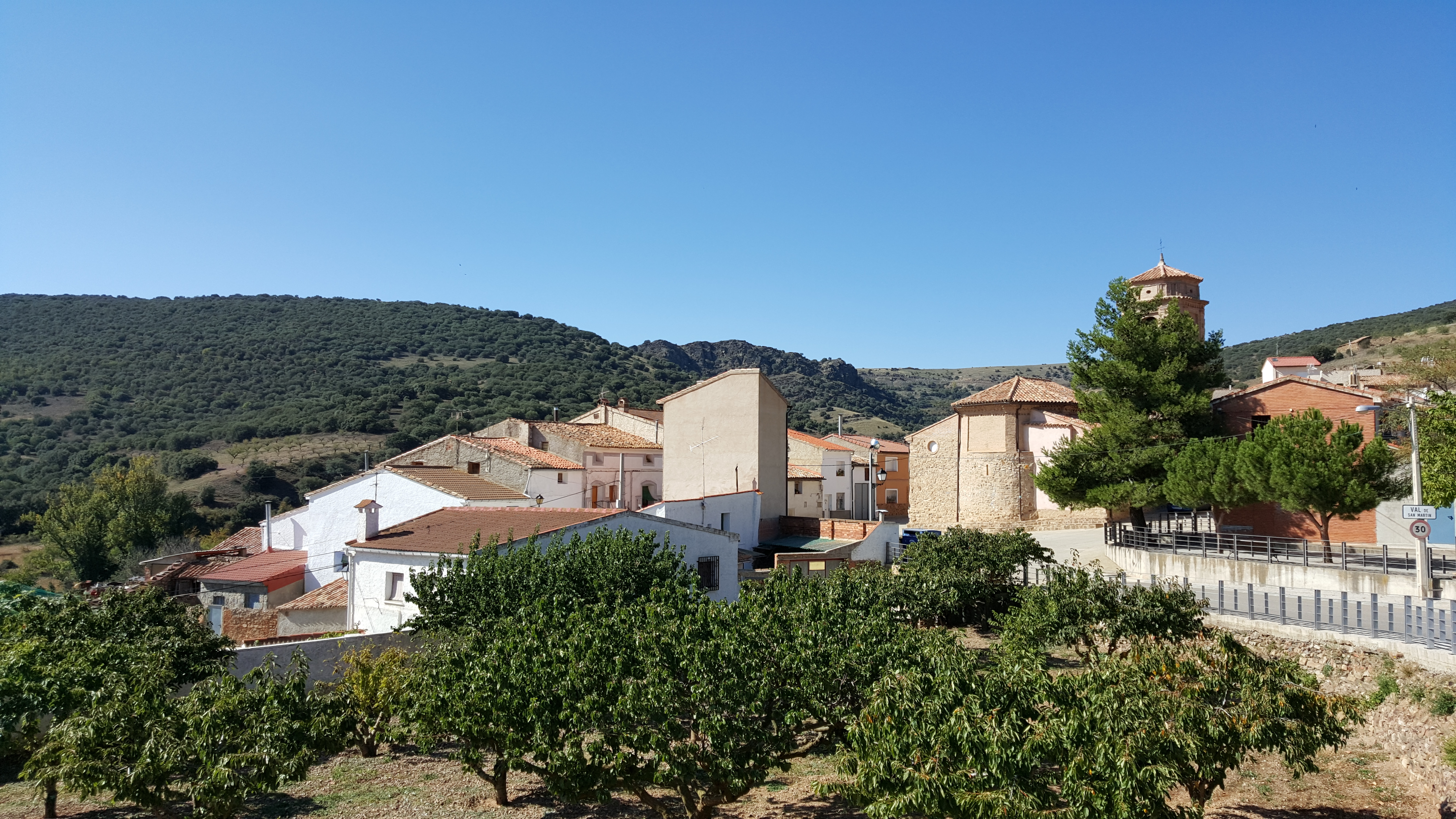 Val de San Martín, Zaragoza, Spain